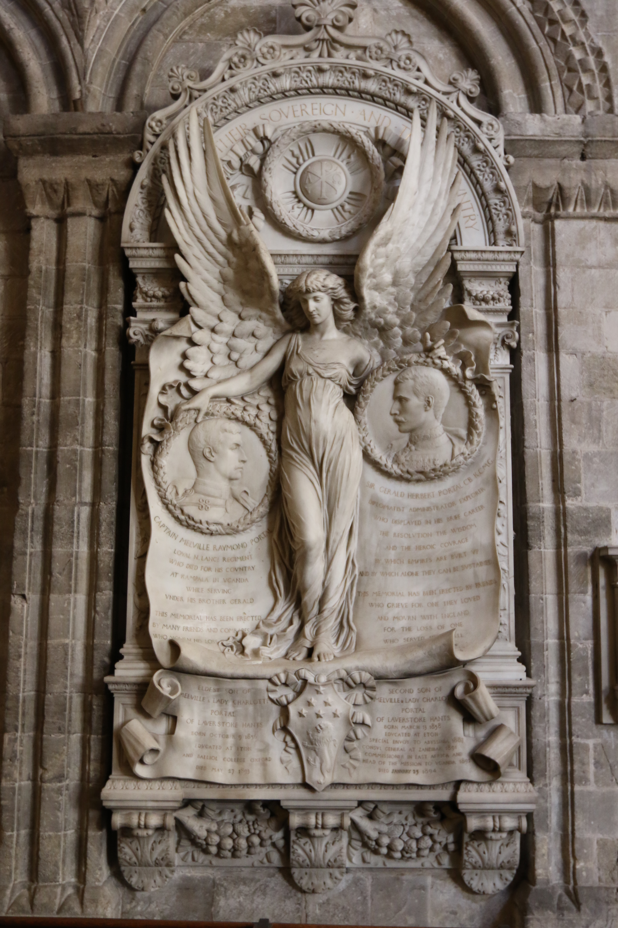 Captain Melville Raymond Portal, Loyal North Lancs Regiment who died for his country at Kampala in Uganda while serving under his brother Gerald. Eldest son of Melville and Lady Charlotte Portal of Laverstoke Hants. Born 9 October 1856. Educated at Eton and Balliol College, Oxford. Died 27 May 1893. Sir Gerald Herbert Portal C.B. K.C.M.G. Diplomatist. Administrator. Explorer. Who displayed in his brief career the resolution, the wisdom and the heroic courage by which empires are built by and by which alone they can be sustained. Second son of Melville and Lady Charlotte Portal of Laverstoke, Hants. Born 13 March 1858. Educated at Eton, Special Envoy to Abyssinia 1887, Consul General at Zanzibar 1891 Commissioner in East Africa and Head of the Mission to Uganda 1892. Died 25 January 1894. The memorial is by the sculptor Waldo Story.